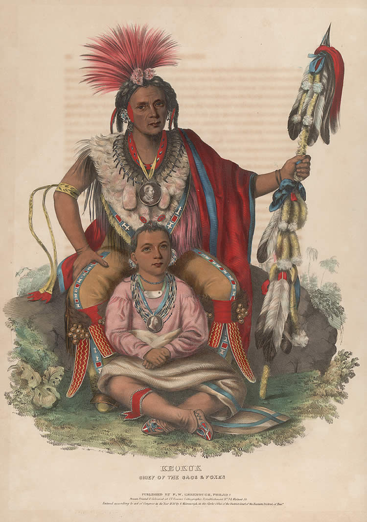 Keokuk: Chief of the Sacs and Foxes Painter: Charles Bird King, Washington, 1837